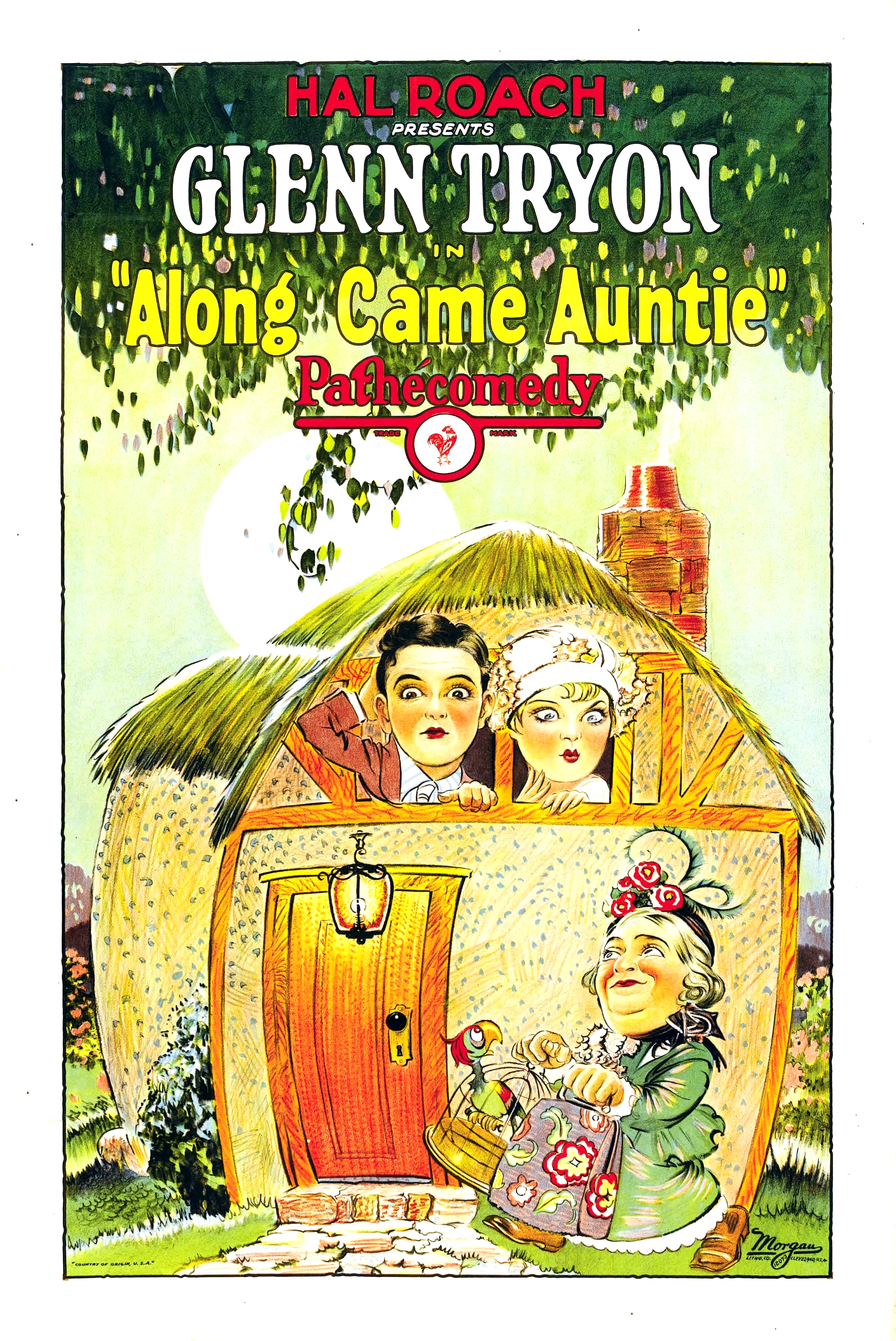 Poster for the 1926 film Along Came Auntie. There are no copyright marks as can seen at the link above. At bottom left is Country of origin USA and at bottom right is a logo for the Morgan Litho Company in Cleveland, Ohio--they printed the poster.